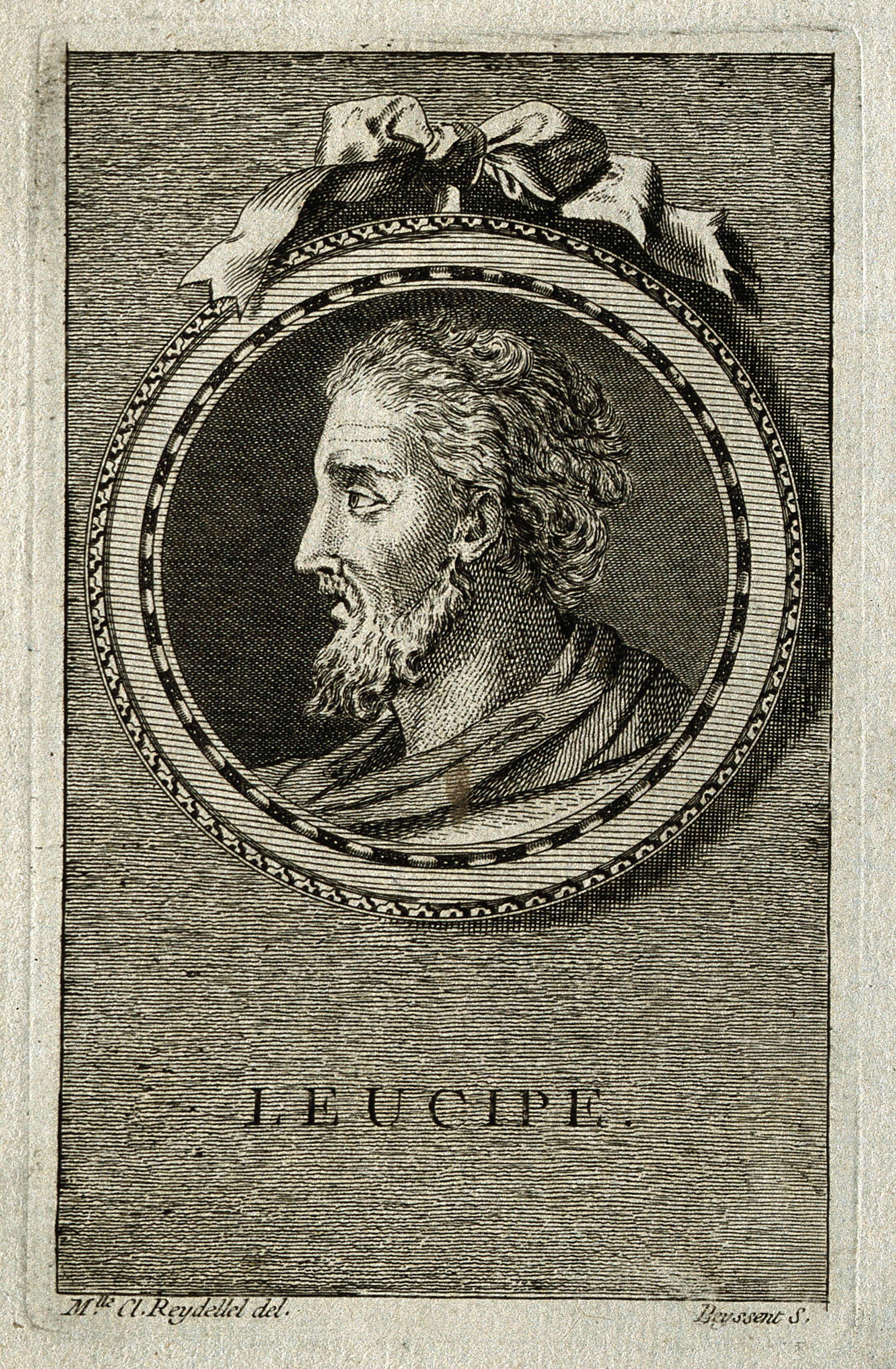 Leucippus. Line engraving by S. Beyssent after Mlle C. Reydellet. Iconographic Collections Keywords: portrait prints; engravings; Leukippus